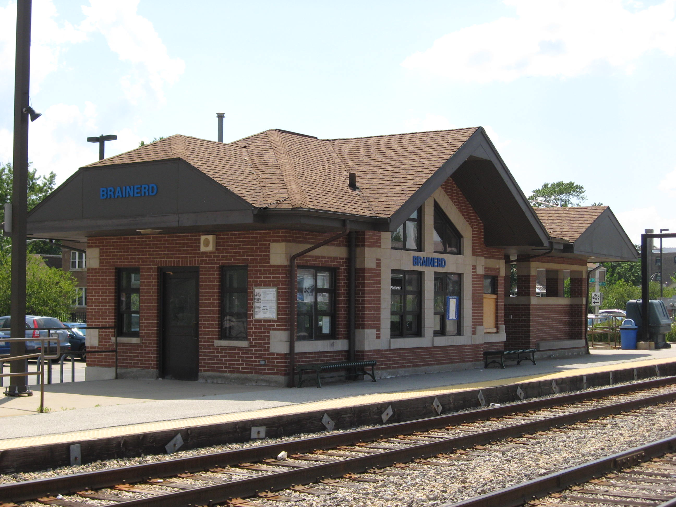 8901 S. Loomis Blvd., Chicago, IL 60620 Metra Rock Island Line Zone B